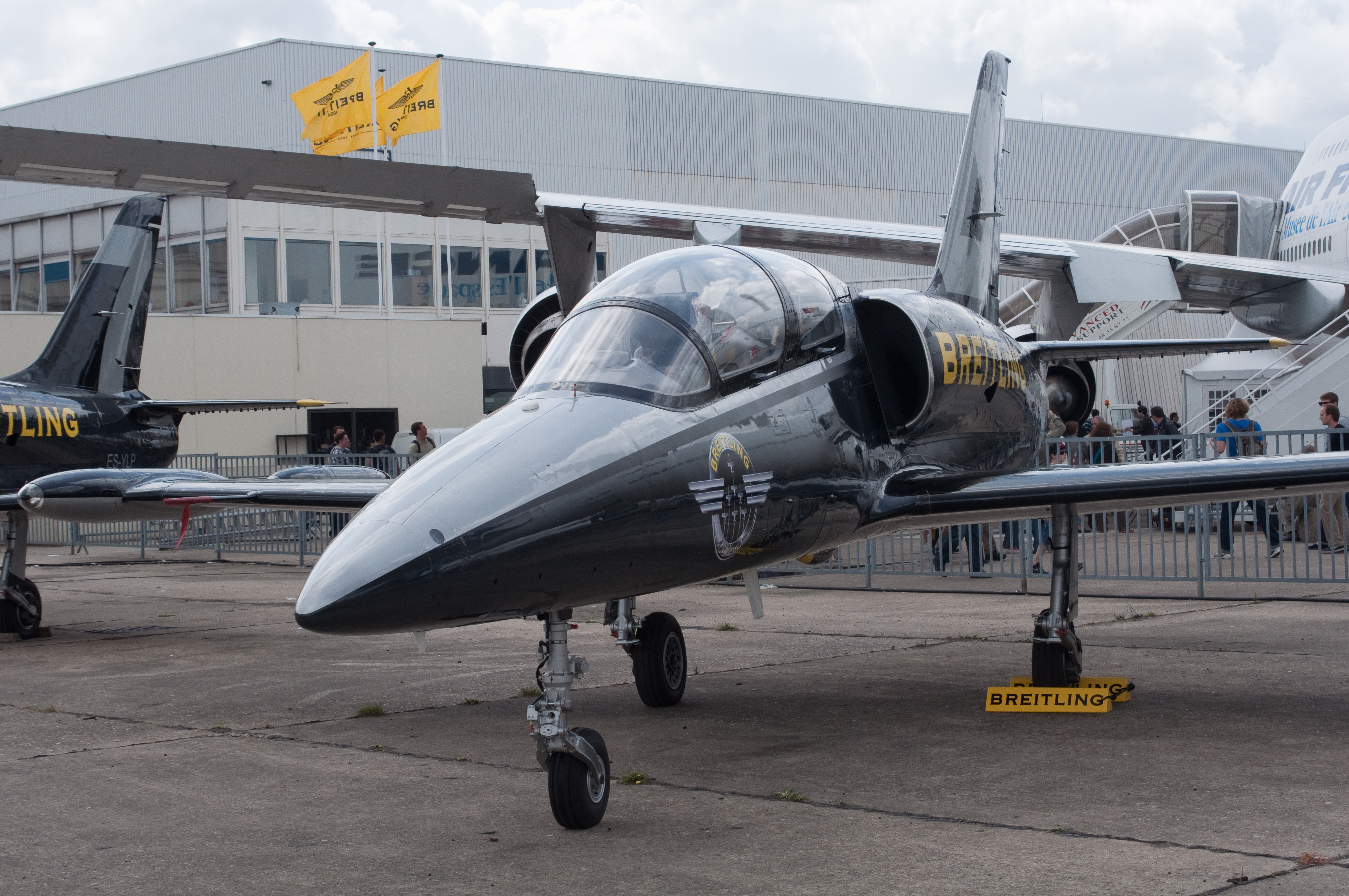 Aero L-39 Albatros